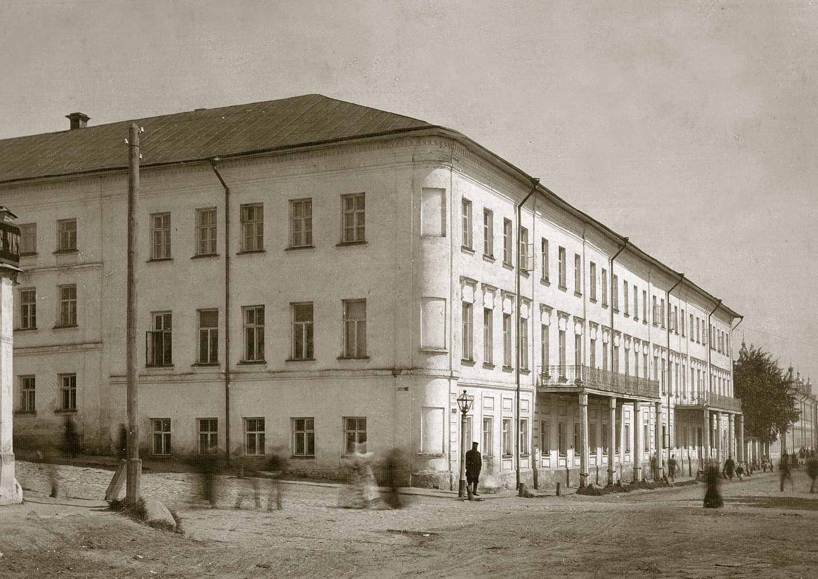 Kostroma Grigorov women's gymnasium